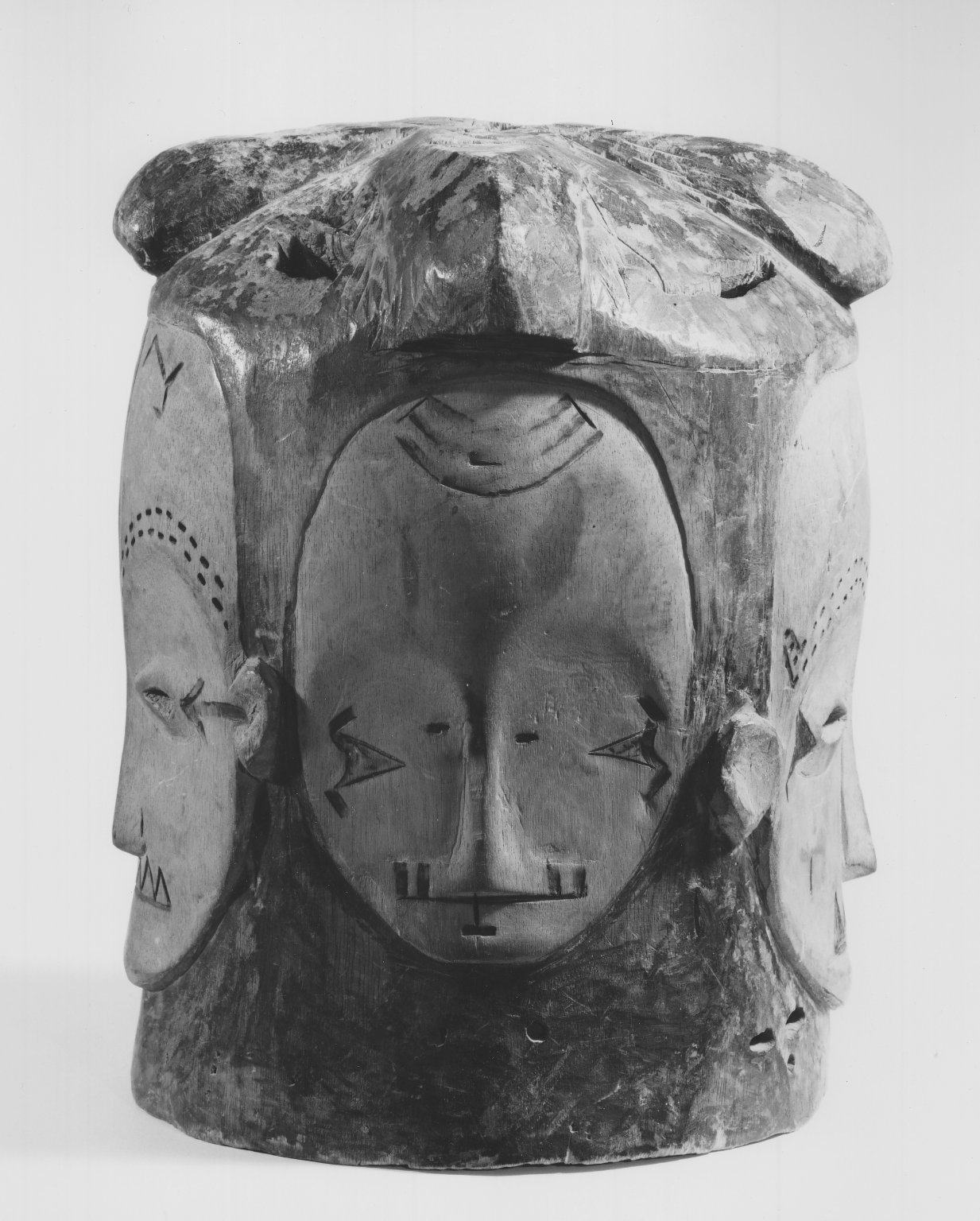 Helmet Mask (Ñgontang) with Four Faces